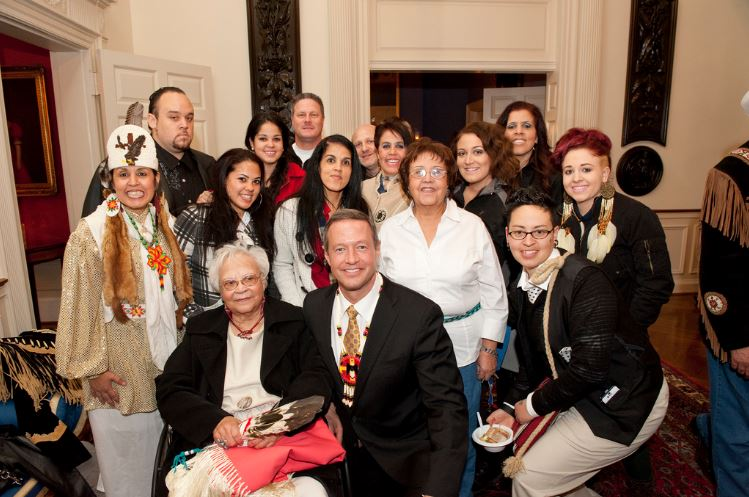 State of Maryland Official Government Photograph of Piscataway Indian Nation and the Piscataway Conoy Tribe officially recognized by Governor Martin O'Malley and State of Maryland in Annapolis on January 9, 2012.